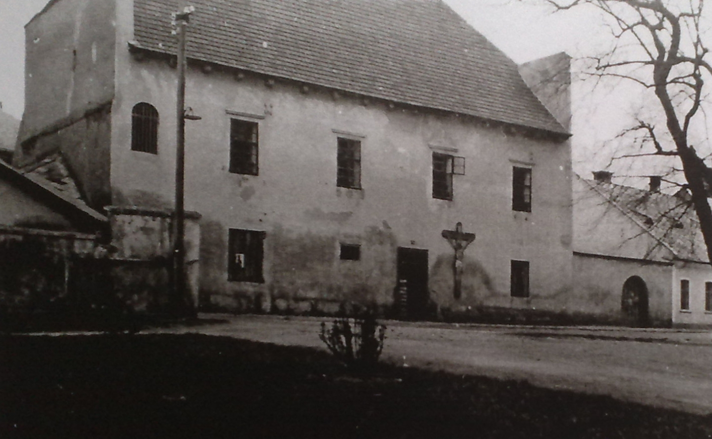 Historical picture of the former hospital in Dům soukenického cechu, nowadays Litovel Municipal Library.